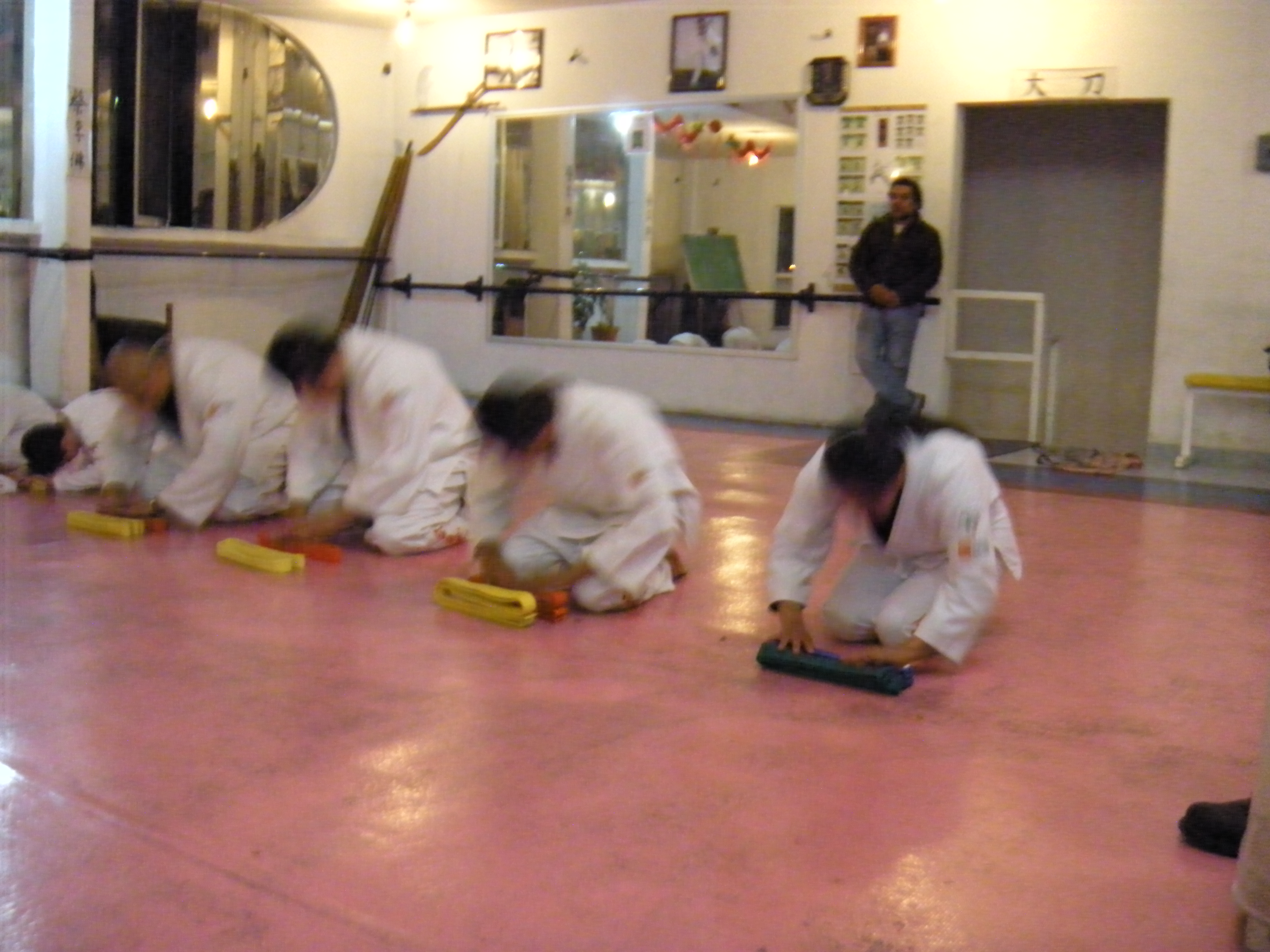 aikido kyu change